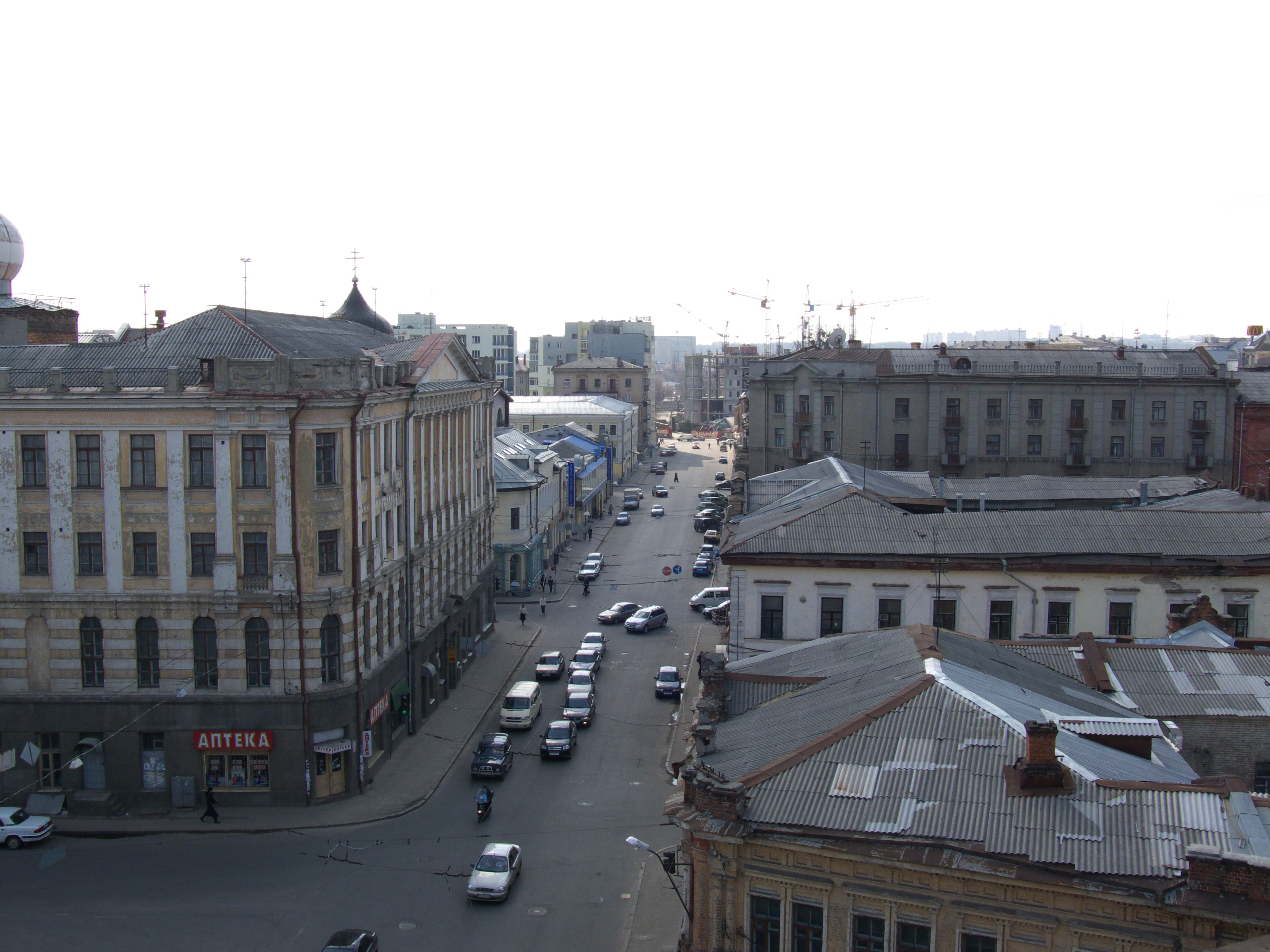 Kooperativnaya street in Kharkov